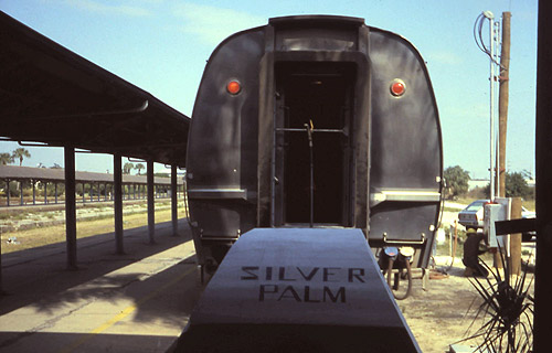 The Silver Palm on its dedicated track at Tampa Union Station in March 1983